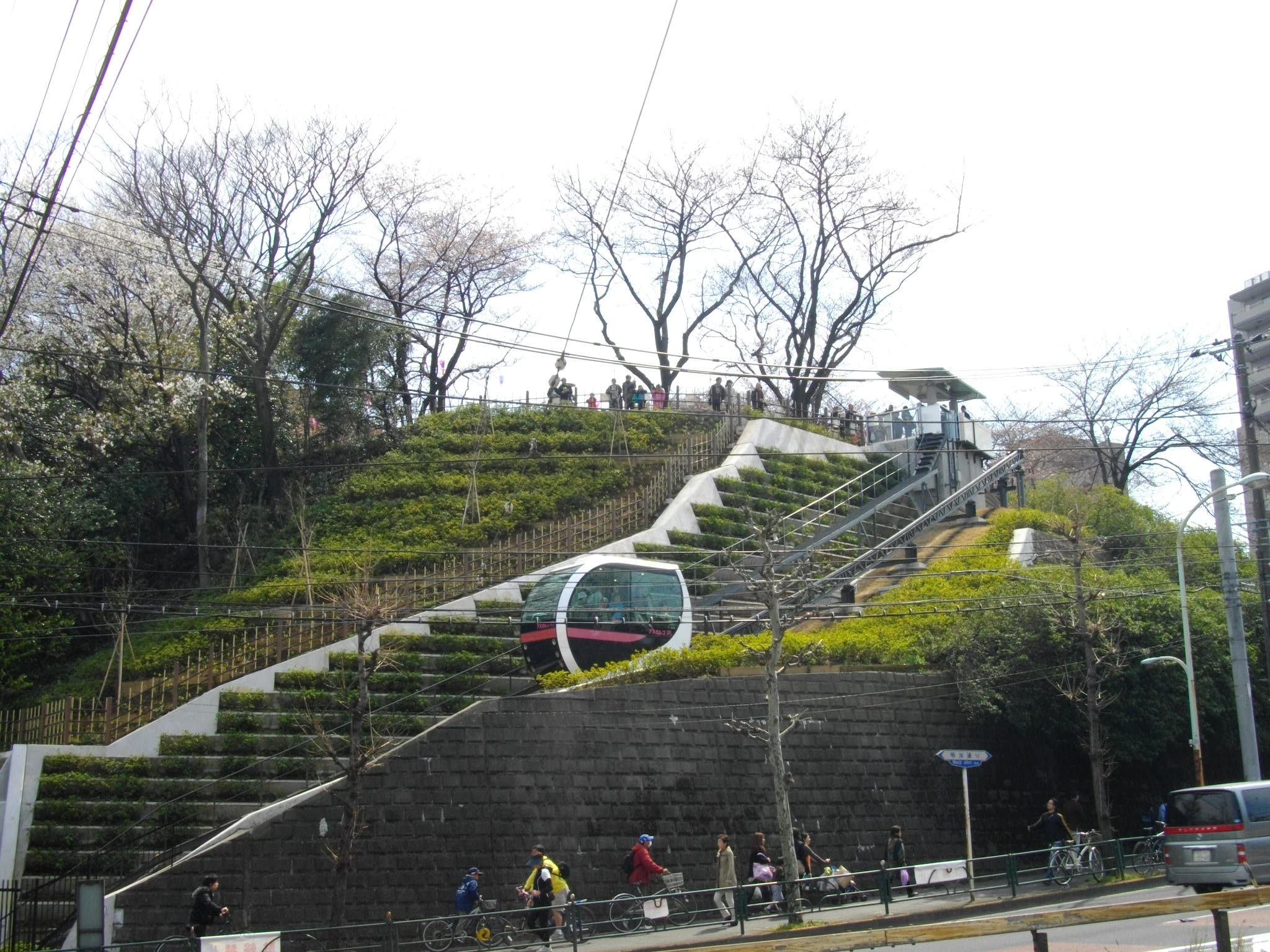 Asukayama Park Monorail